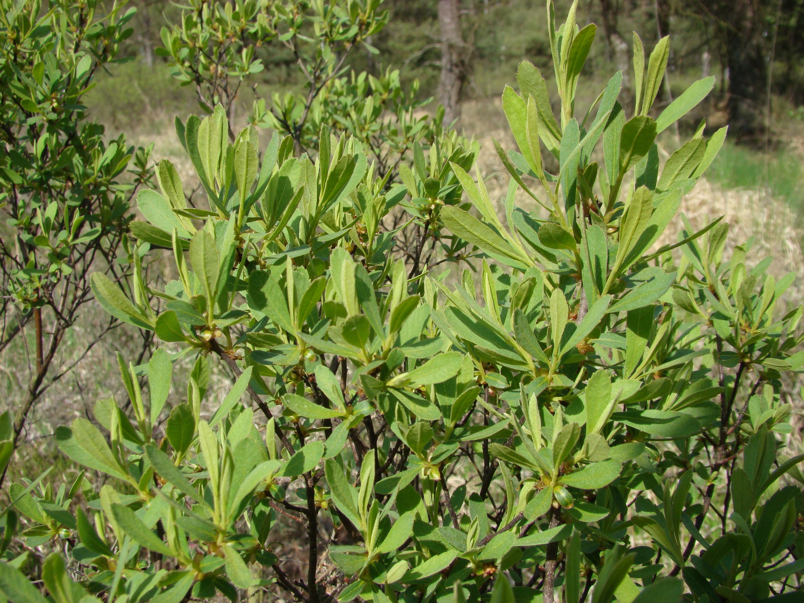 Myrica gale, young slips: "Southern Heath Nature Park", Germany